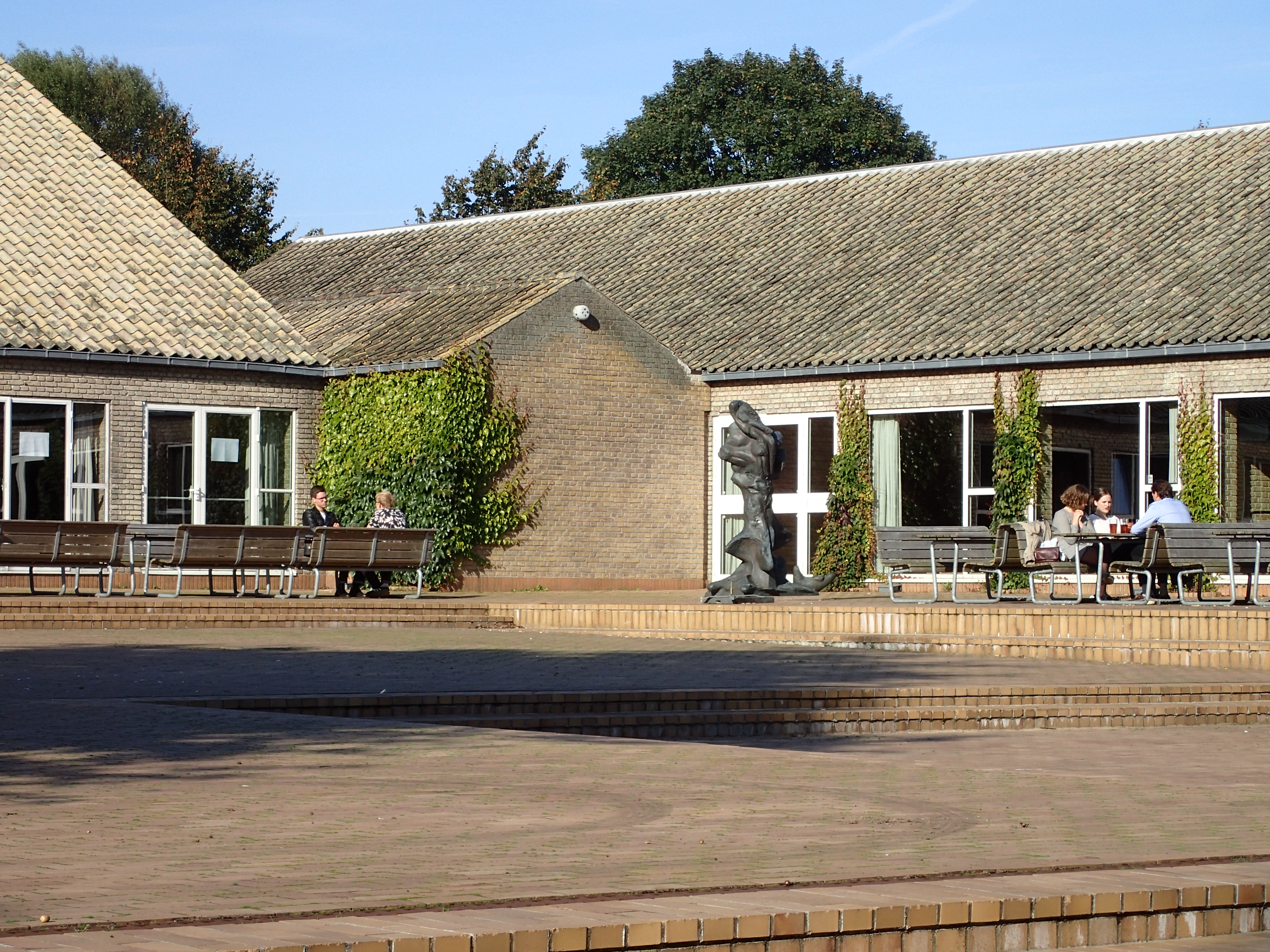 Studenternes Hus